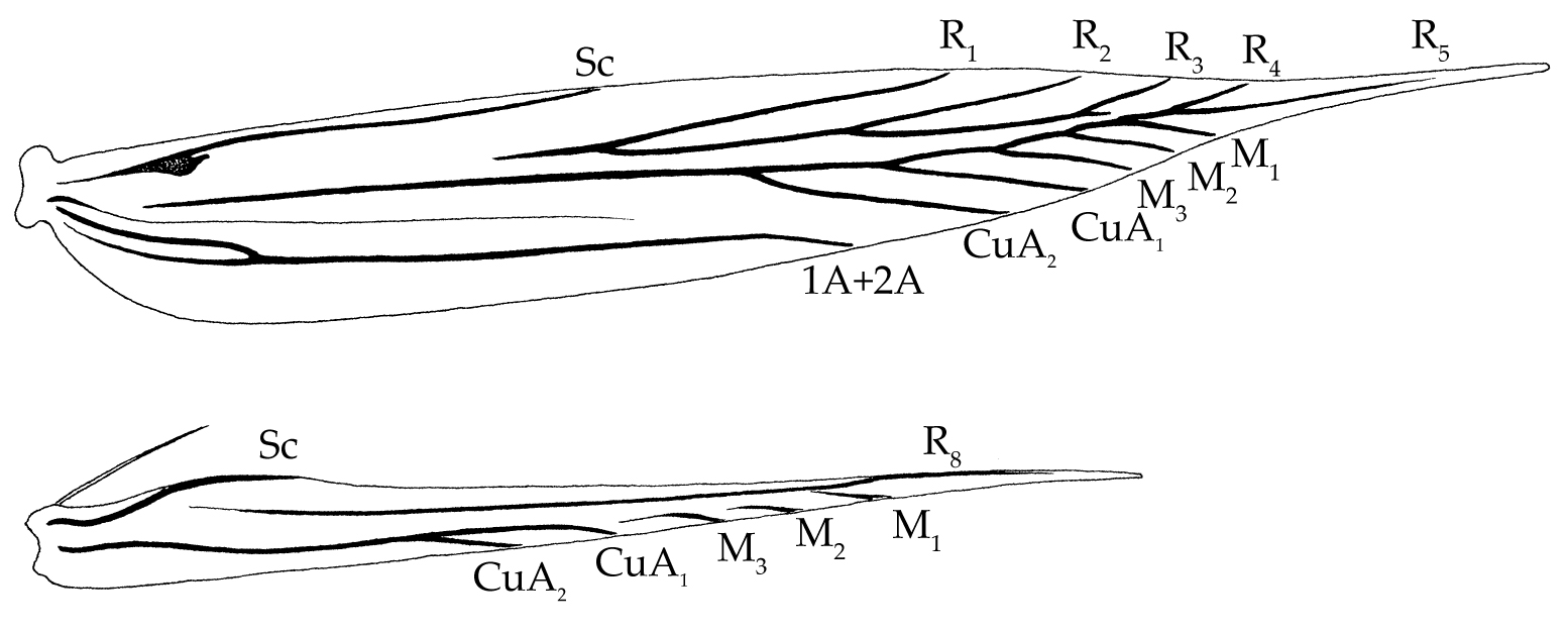 Wingvenation of Cosmopterix zieglerella.